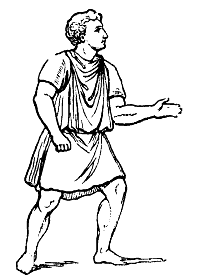 Roman worker dressed in a tunic, after a relief on Trajan's Column